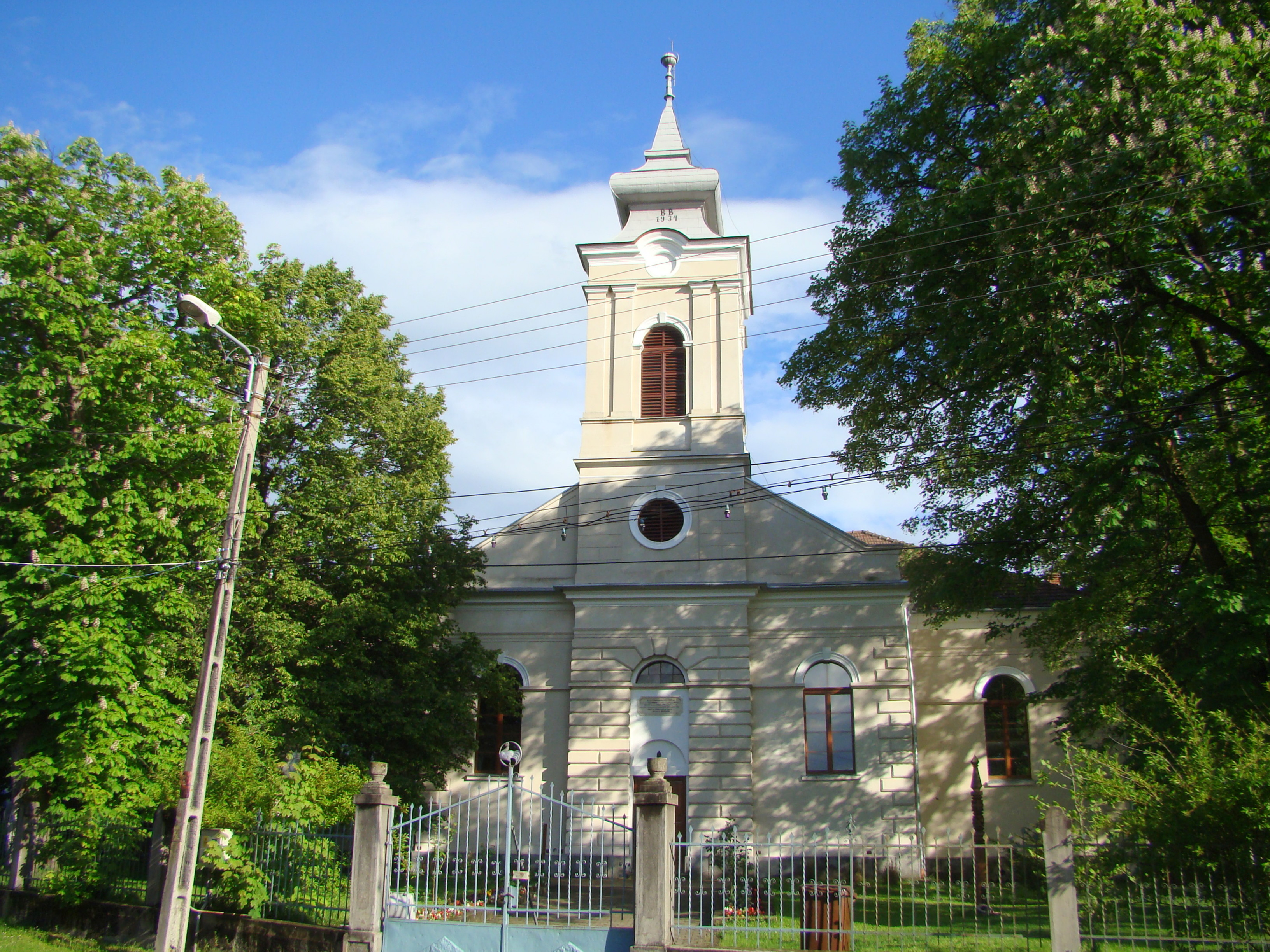 Reformed church in Săvădisla, Cluj County, Romania